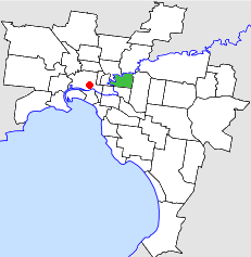 Location of the City of Kew within Melbourne.